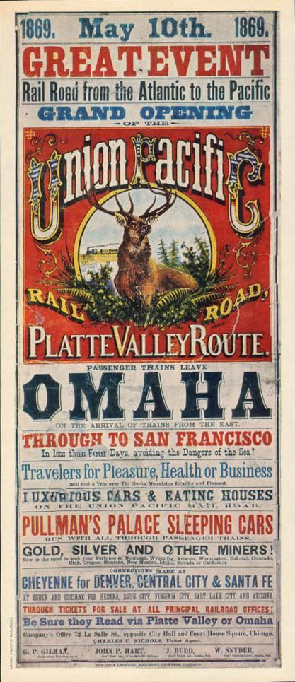 Poster by the Union Pacific announcing the opening of the Transcontinental Railroad.